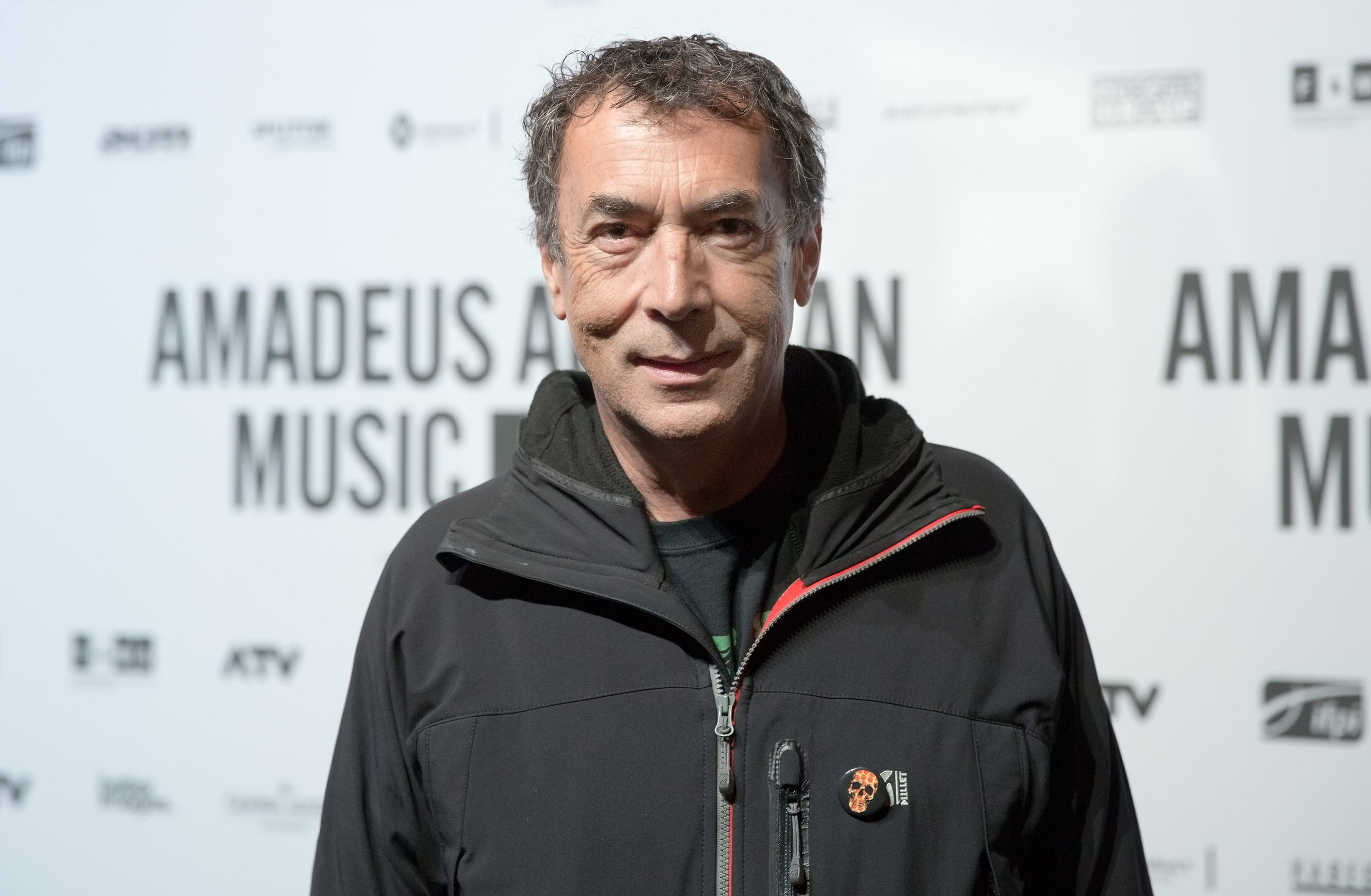 Hubert von Goisern at the Amadeus Austrian Music Award 2015 at Volkstheater in Vienna